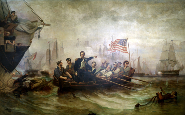 In 1865, artist William Henry Powell painted Perry's Victory on Lake Erie, which now hangs in the Ohio Statehouse. Eight years later, he created this larger version in a temporary studio in the U.S. Capitol. The work depicts the moment when Perry made his way from the Lawrence to the Niagara. Powell used actual sailors as models for the unknown oarsmen, and noted the diversity of Perry's crew by including an African-American, seated toward the right. The frame features Perry's message to General Harrison in gold lettering at the top, and the name and date of the battle on the cartouche at the bottom.